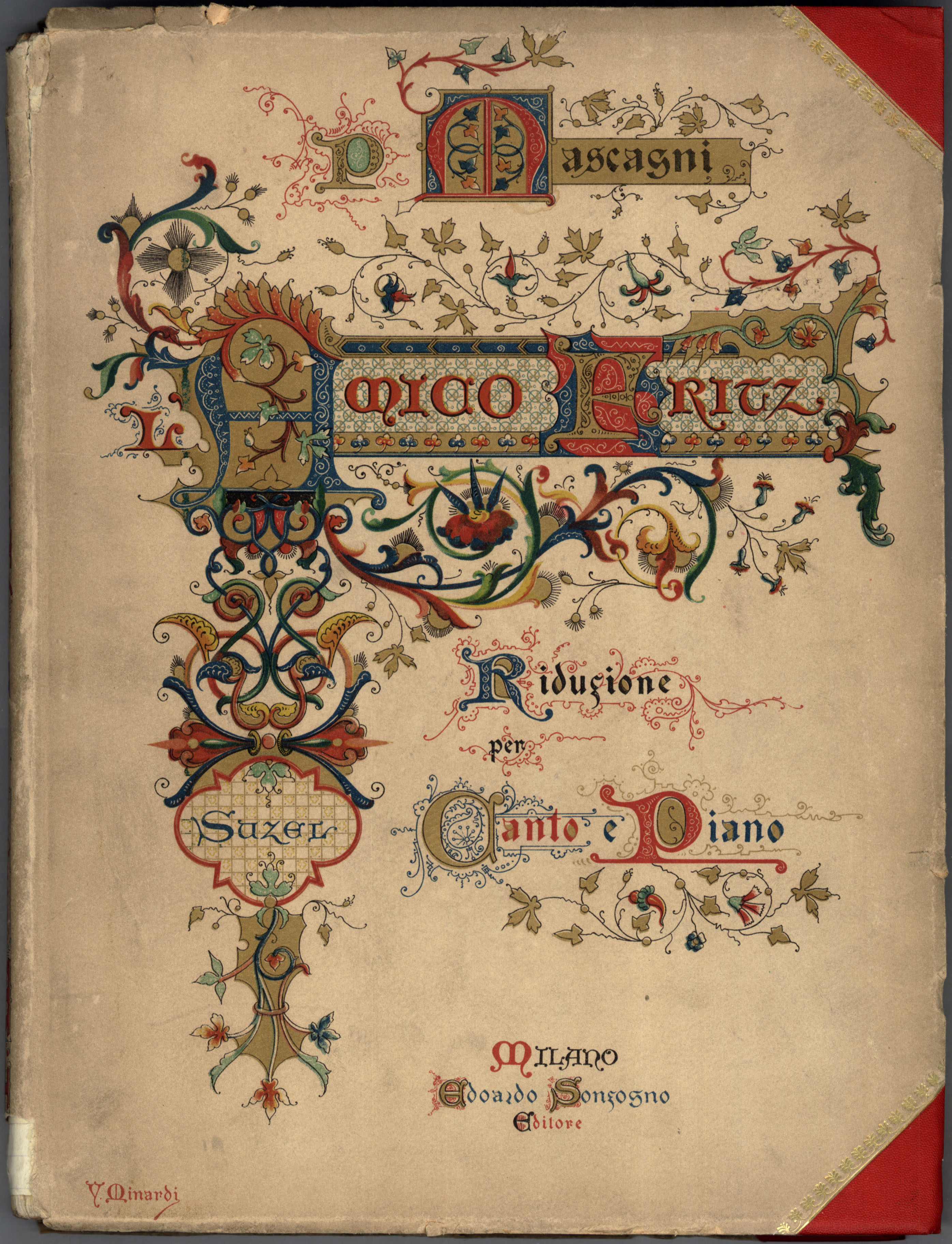 Pietro Mascagni, L'amico Fritz, piano score, cover